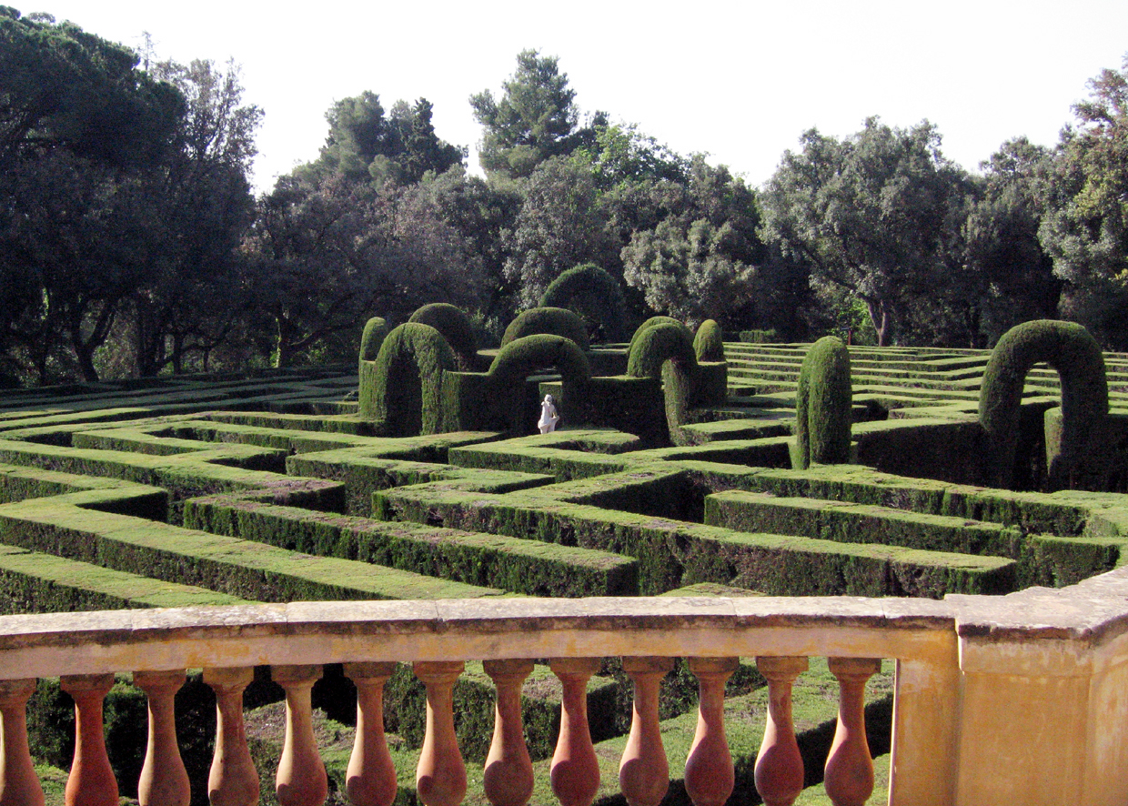 The Labyrinth hedge maze in the Parc del Laberint d'Horta, in Barcelona, Catalonia (Spain).